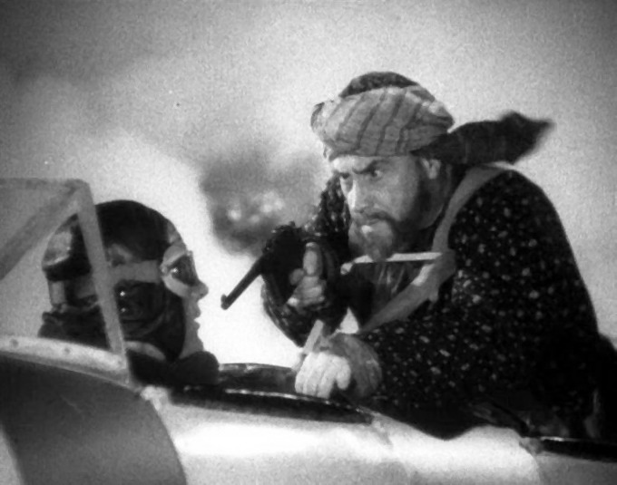 Кадр из фильма Мужество